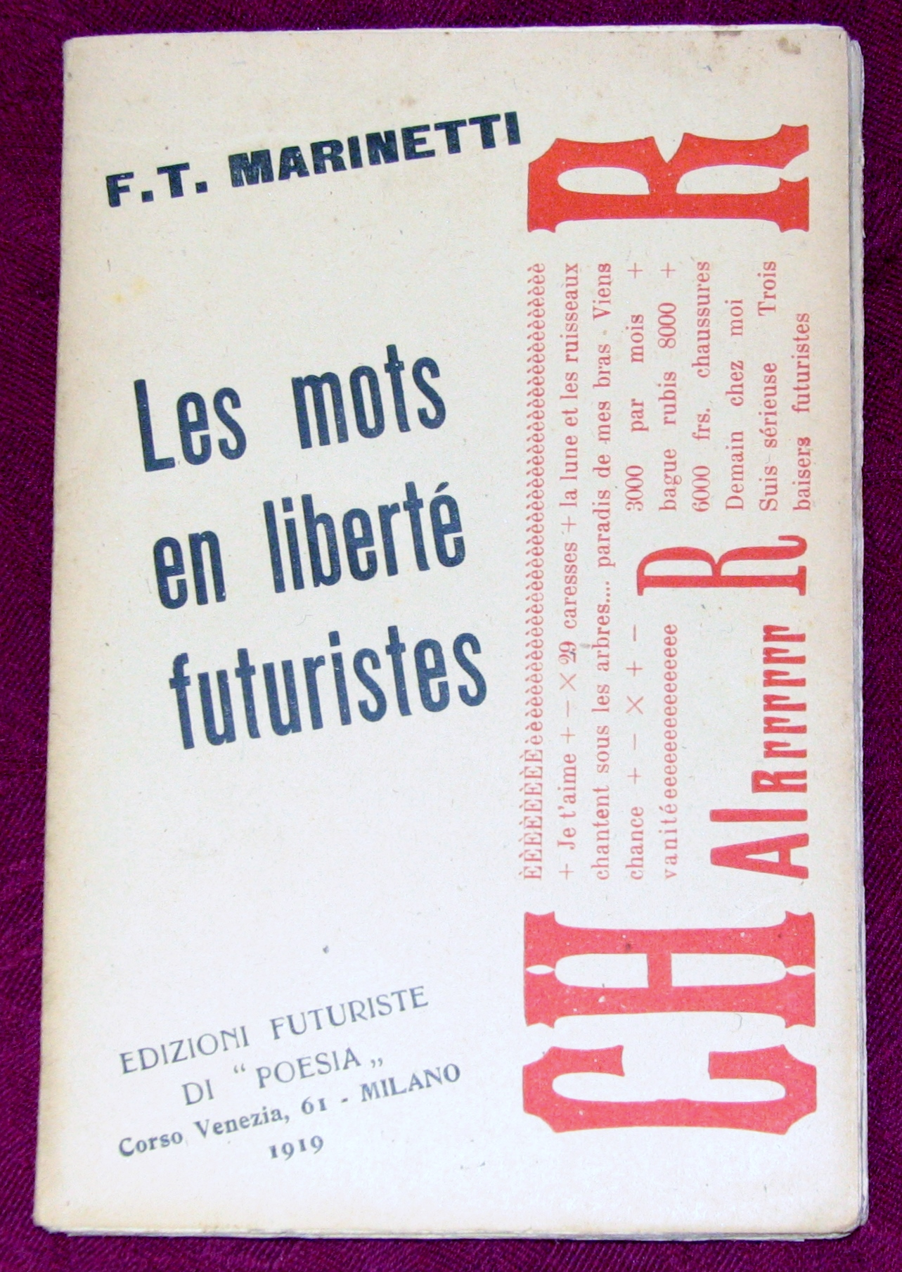 Front cover of F.T. Marinetti's Les mots en liberté futuristes, Milan, 1919, from the Cooper-Hewitt Smithsonian Design Museum Library